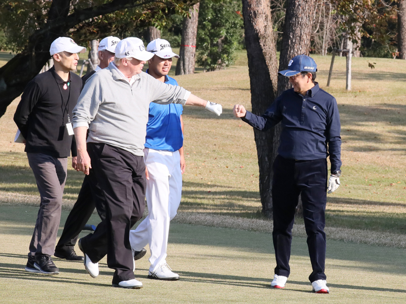 Japanese Prime Minister Shinzō Abe and POTUS Donald Trump playing golf with Hideki Matsuyama.